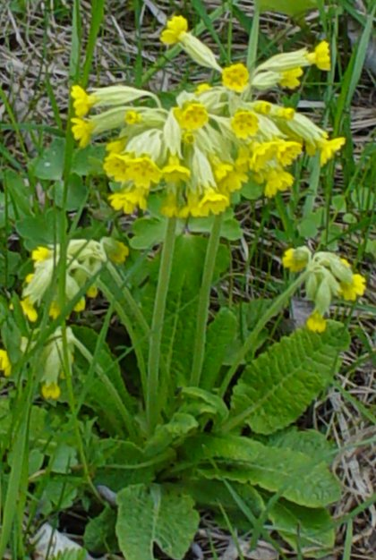 Gullviva, Primula veris. Foto Olof Ekstr�m 2004. 15 maj 2004 kl.18.58 OlofE 420x626 (68304 bytes) (Gullviva)